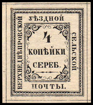 Verkhnedneprovsk Uyezd Zemstvo Stamp, 4 kopecks, Russia.